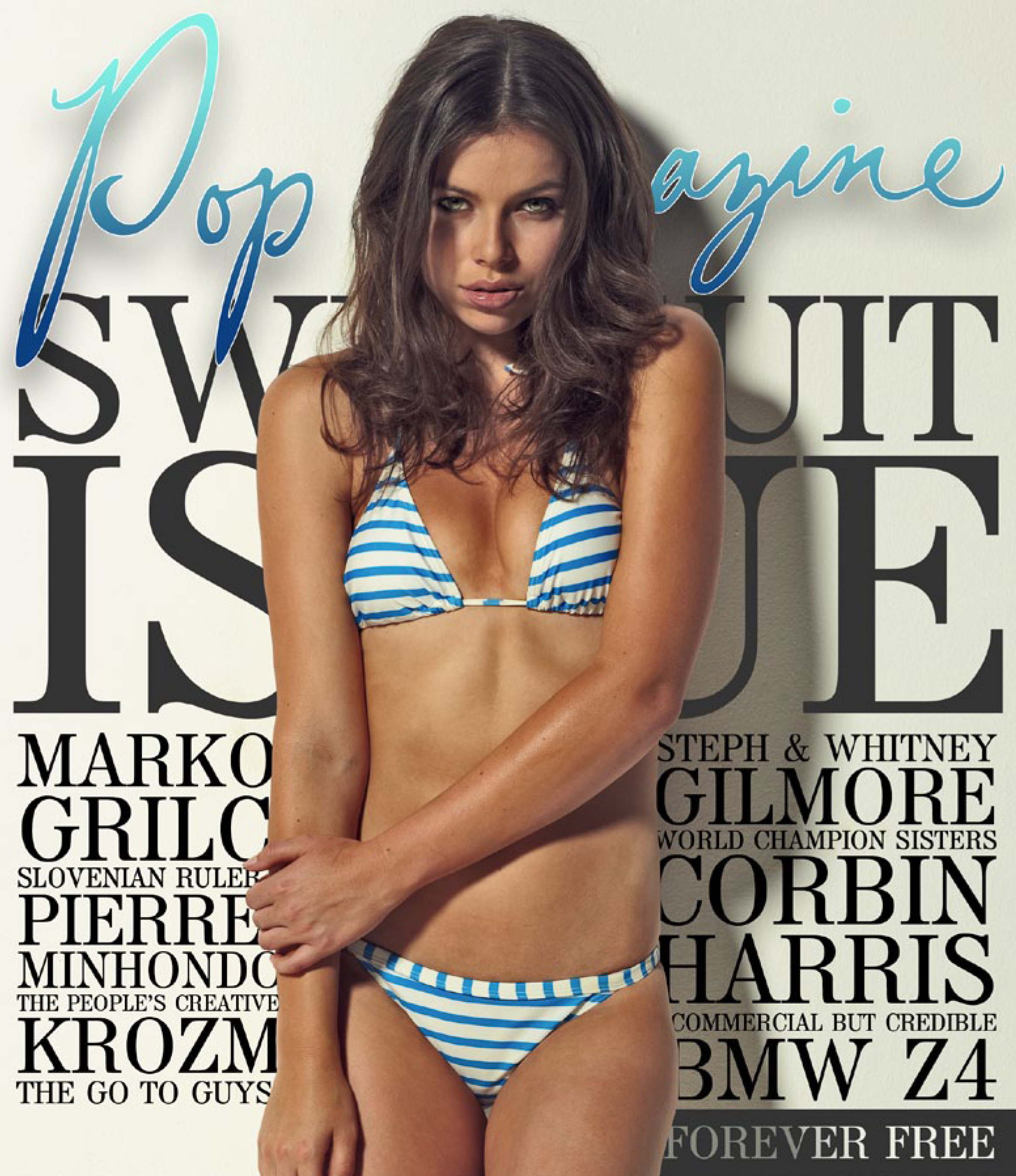 The cover of issue 14 of Pop Magazine. The cover features model Alyse Co'cliff.